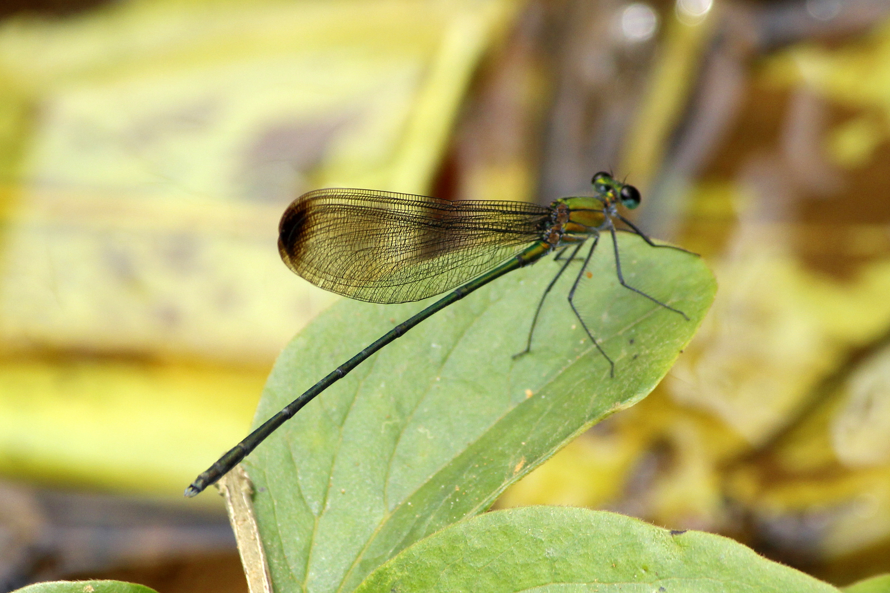 Vestalis submontana is a damselfly in the family Calopterygidae endemic to India. Fraser described it as Vestalis apicalis submontana and Vestalis gracilis montana. Ref: Notes on the taxonomic status of Vestalis submontana. A rare dragonfly species from Silent Valley National Park, Kerala, India.